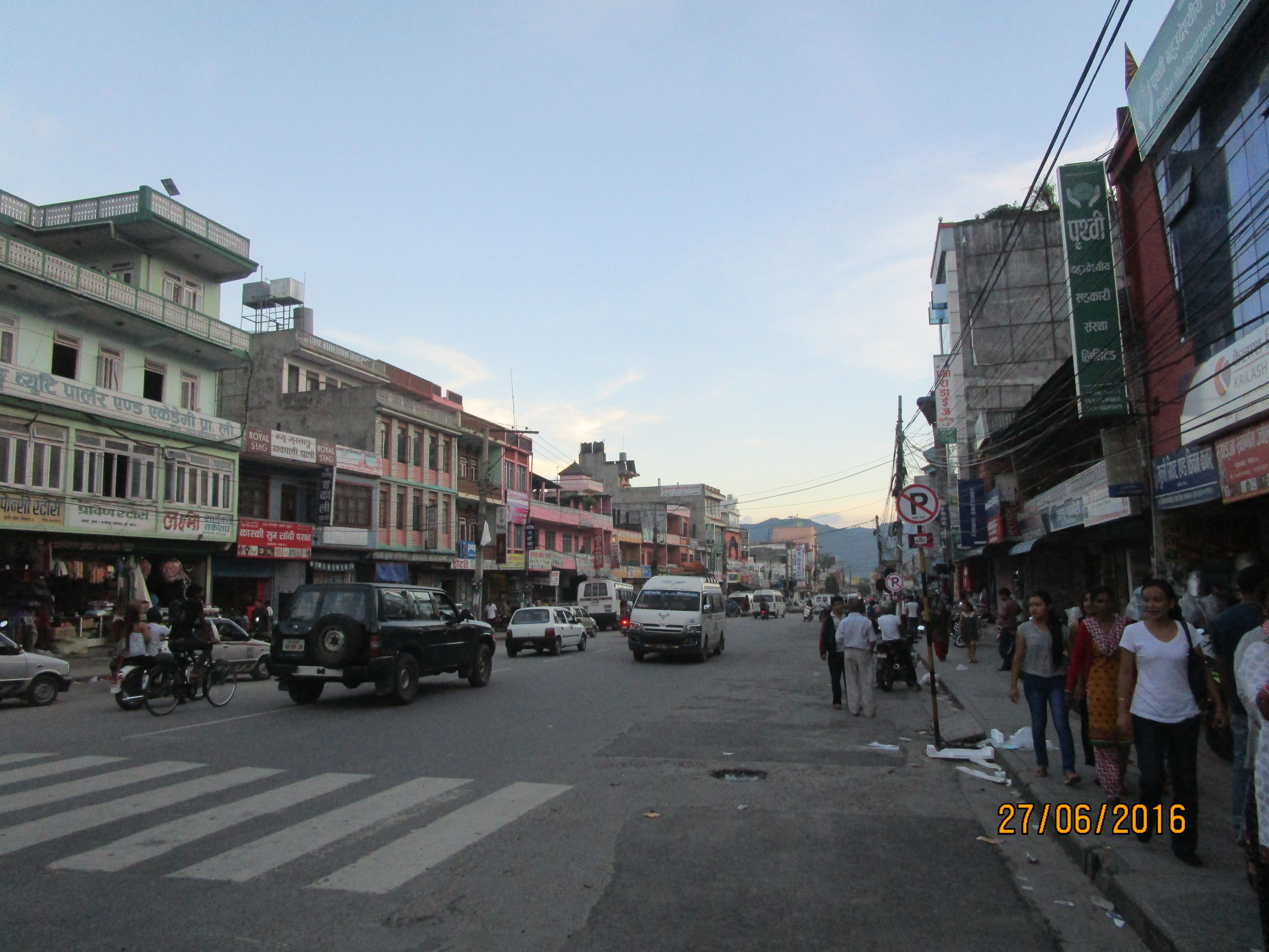 The end point of Siddhartha Highway